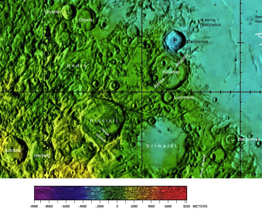 Part of the USGS Near side lunar chart used for the presentation